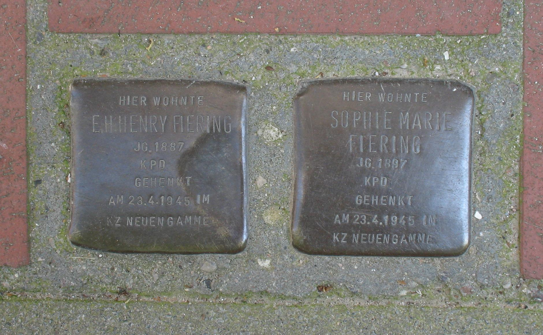 "Stumbling blocks" in Hamburg-St. Georg, Germany